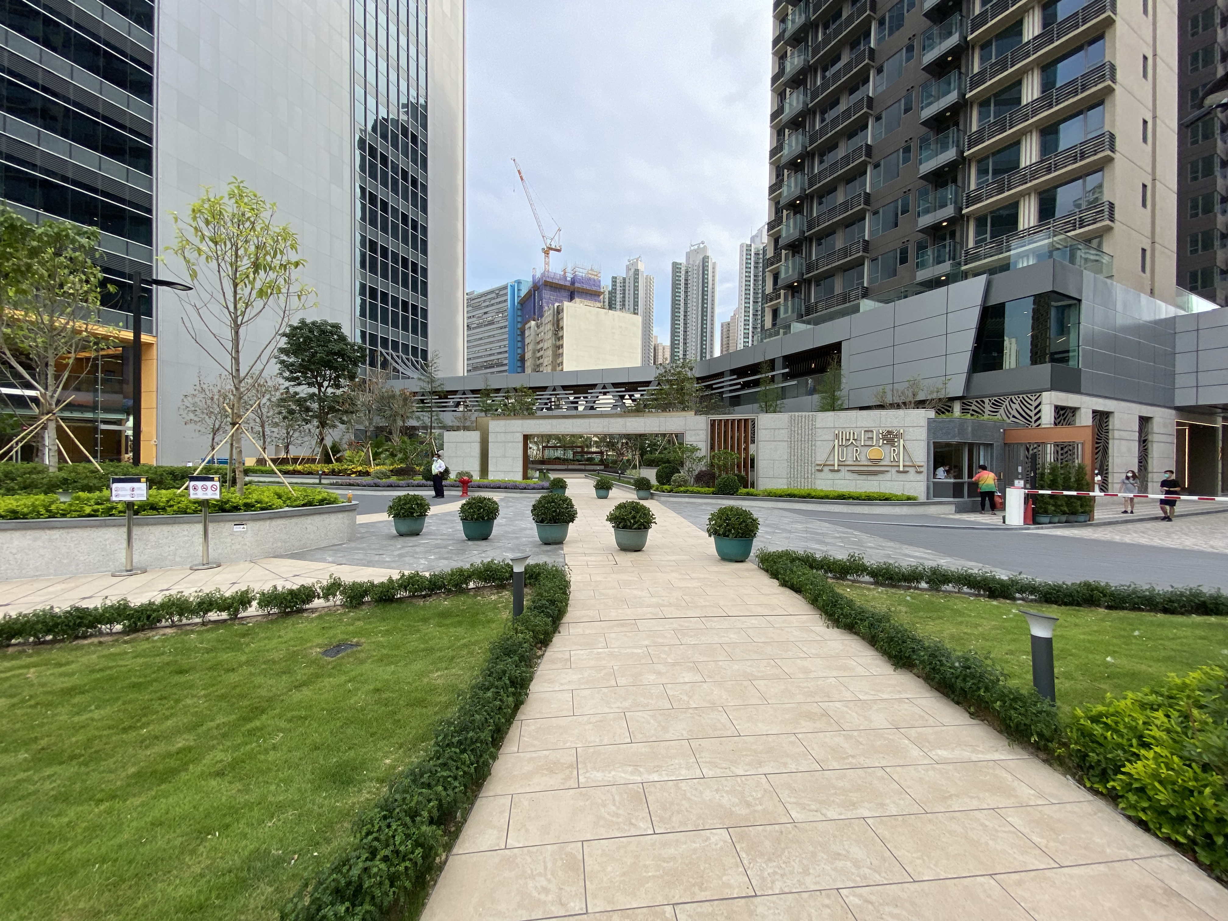 The Aurora Entrance